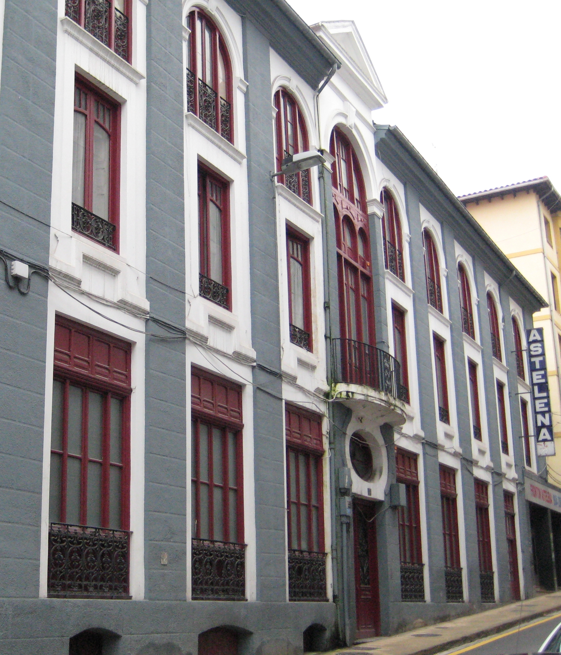 Façade of Astelena Basque pelota premises in Eibar, Guipuscoa.